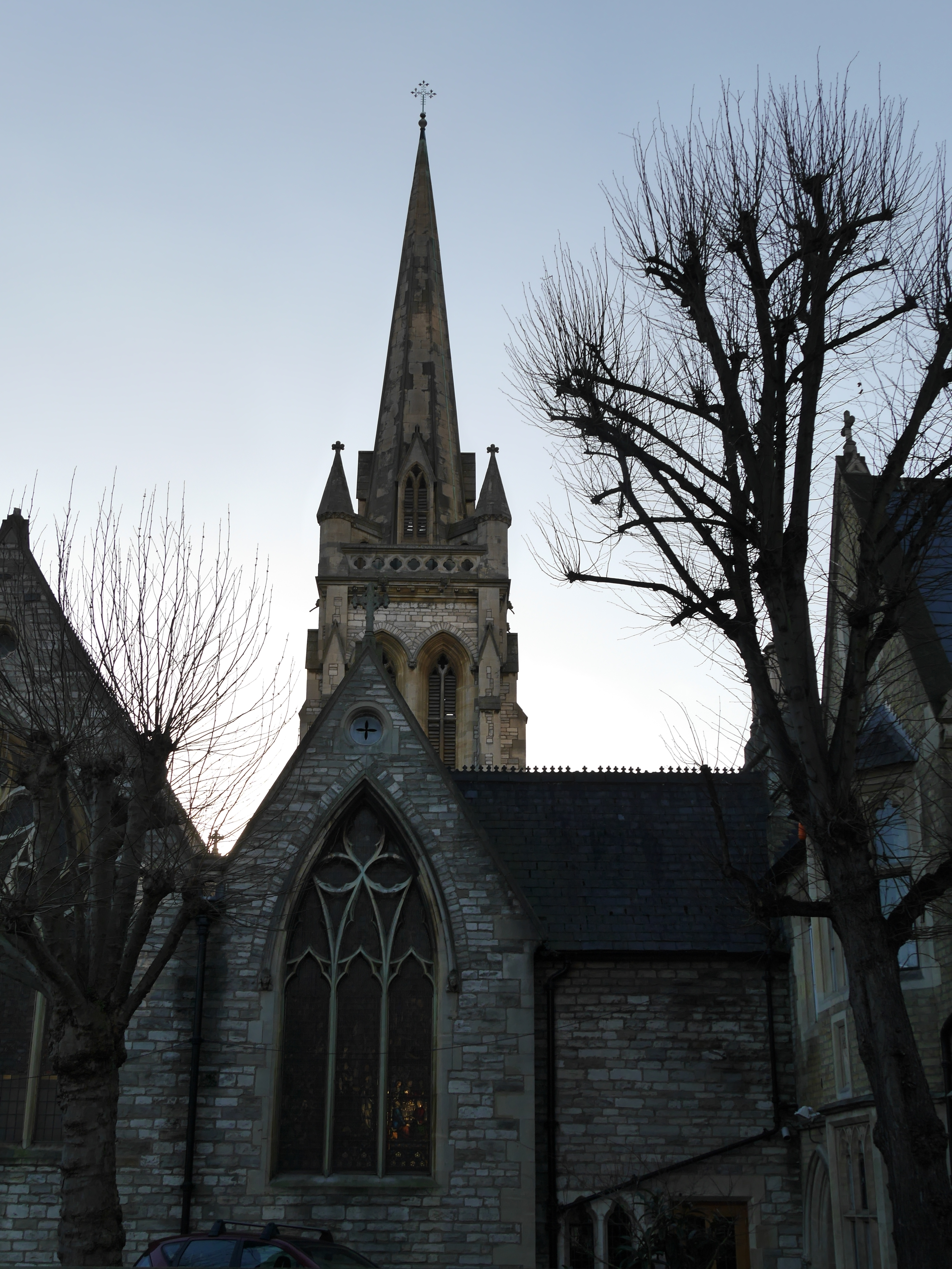 St Thomas of Canterbury, Fulham, February 2015